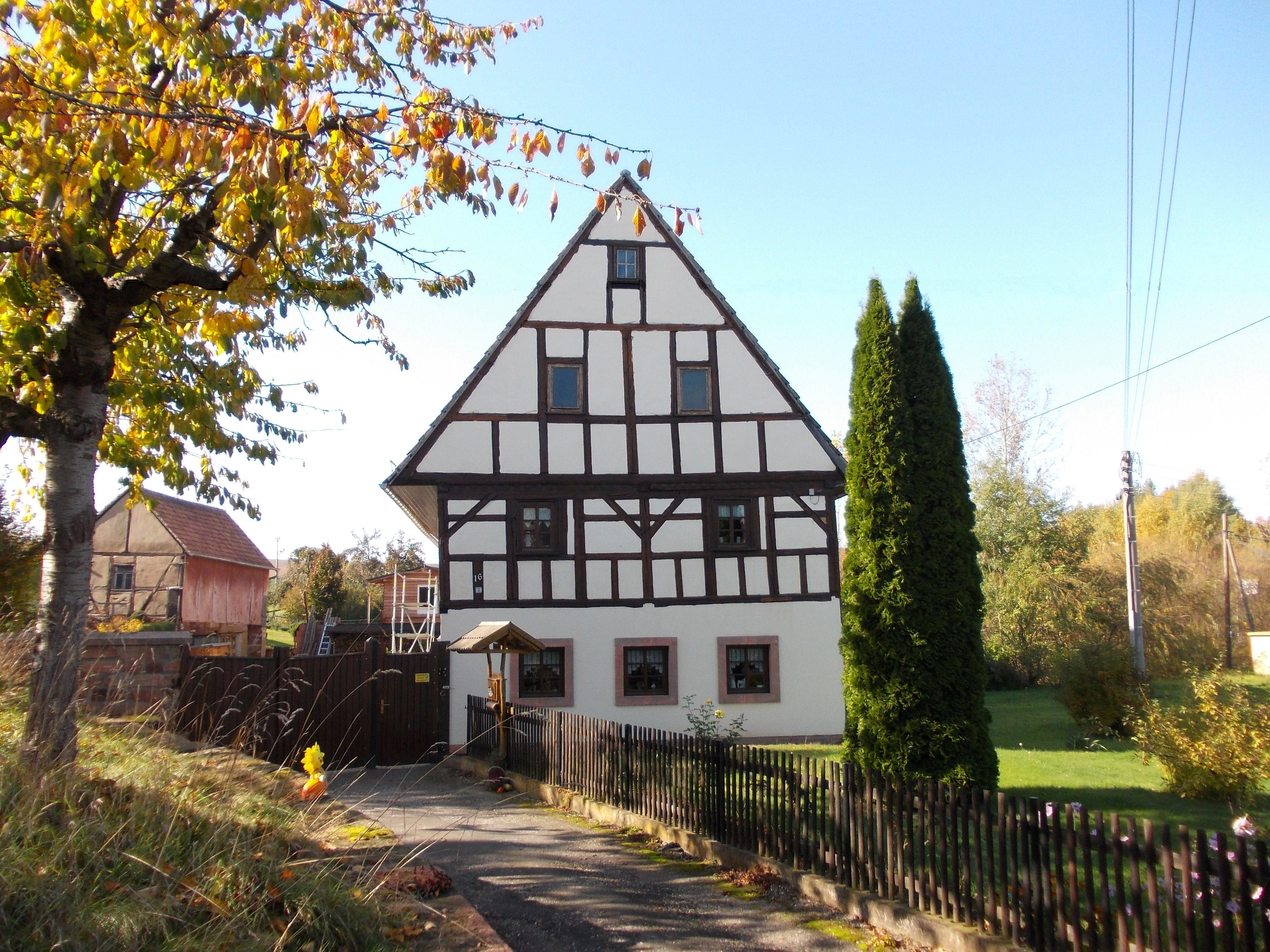 Half-timbered house at Nosswitzer Hauptstrasse in Nosswitz (Rochlitz, Mittelsachsen district, Saxony)